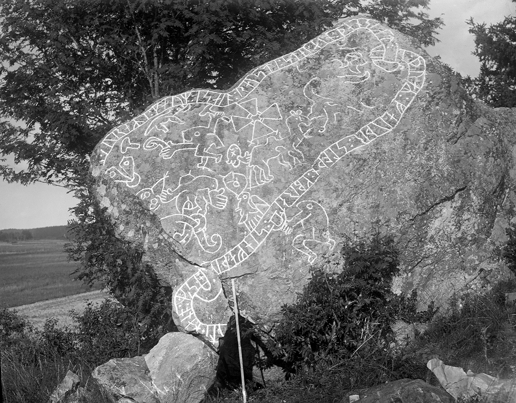 Runic inscription Gökstenen (Sö 327) on boulder in Härad. The images on the boulder are from the Old Norse Sigurd Saga. The meaning of the runes is uncertain and difficult to interpret. The interpretation by Säve says: "Iasio raised the stone, by himself, in memory of Thuar, father Slodes, and Brand, his father...(carved the runes) Iurar in Kaum".